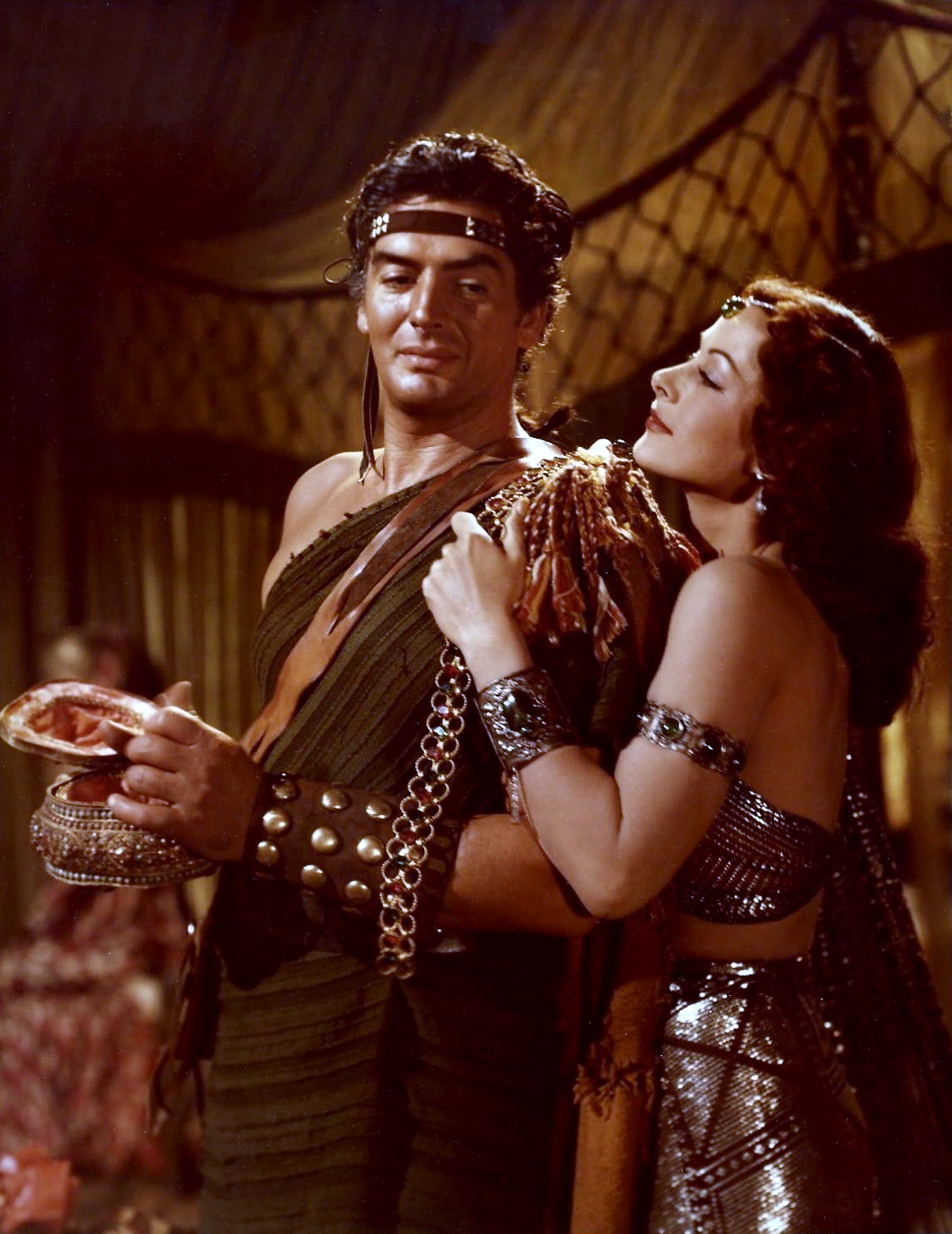 Color photograph of Victor Mature and Hedy Lamarr as Samson and Delilah (1949).